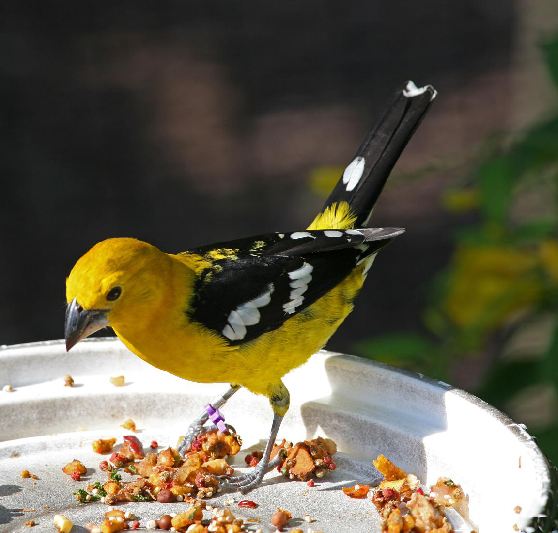 Yellow Grosbeak, also called Mexican Yellow Grosbeak, at Miami Metrozoo.